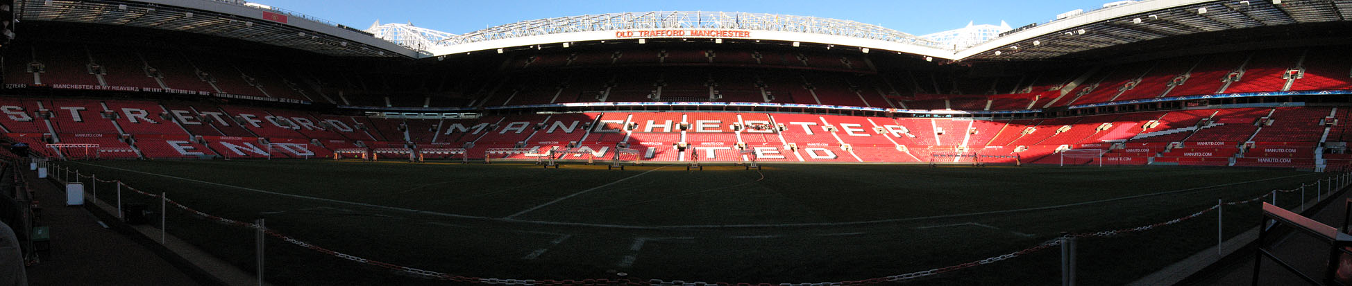 Panorama of Old Trafford